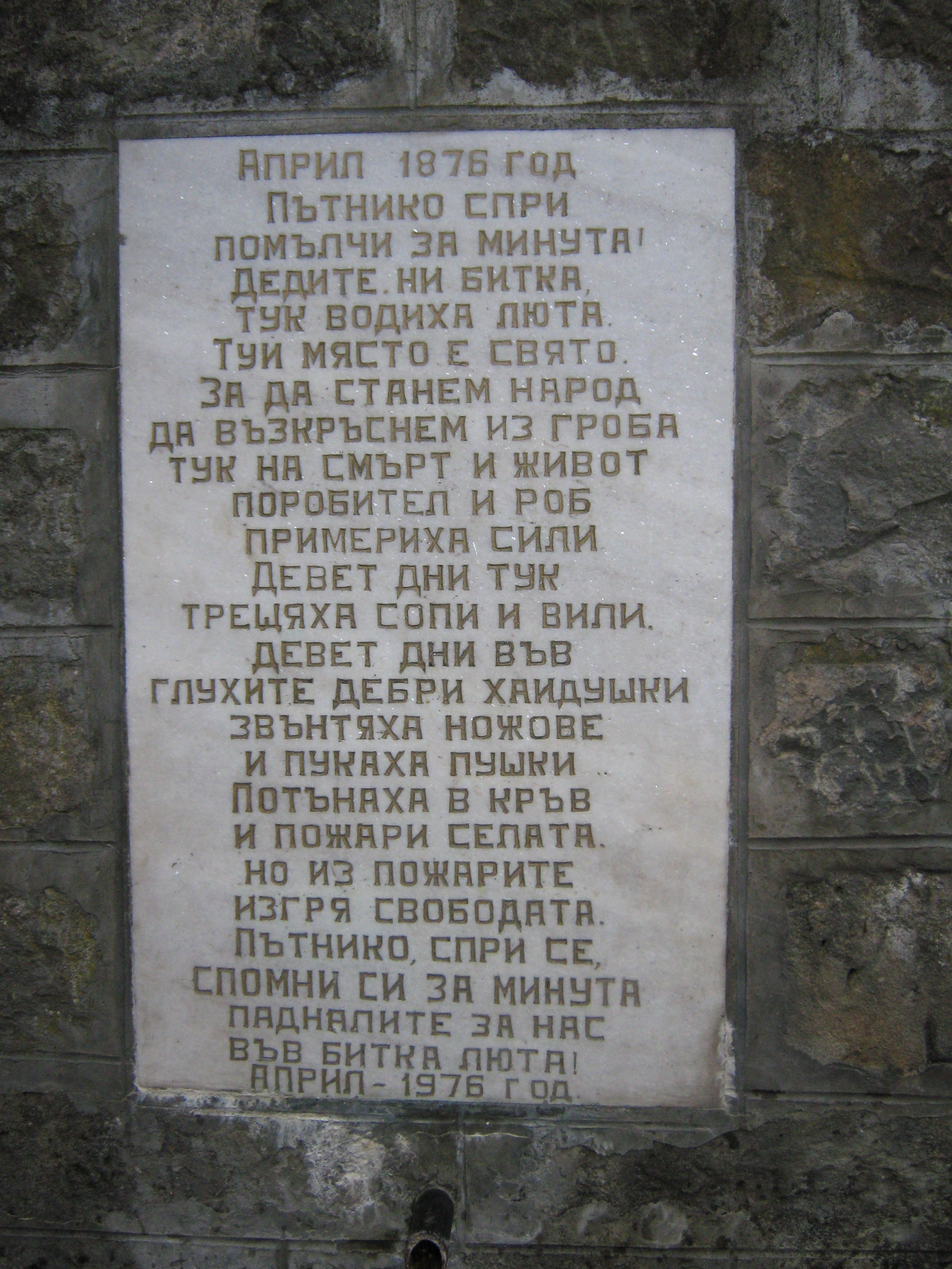 Cravenik